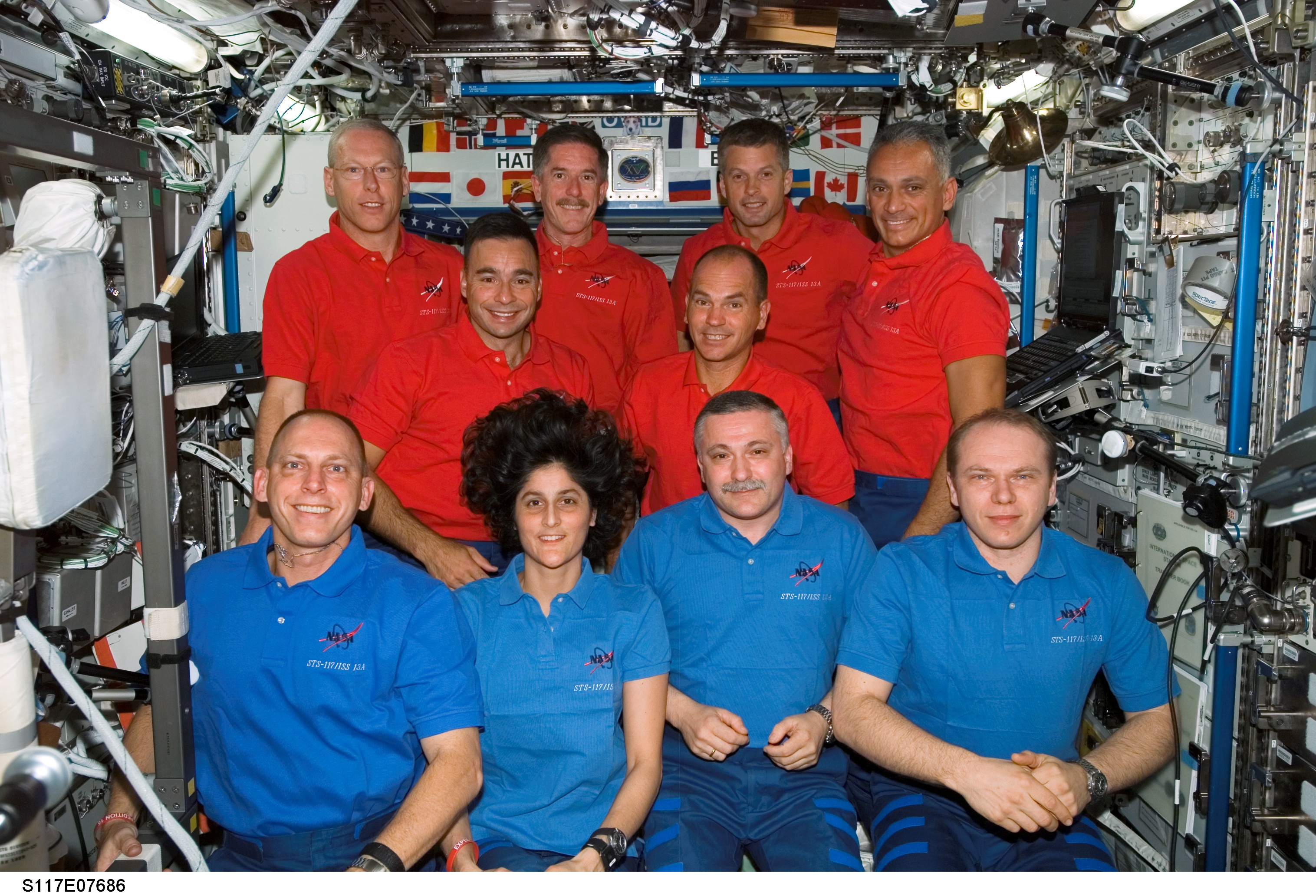 STS-117 Crew Press Photo.